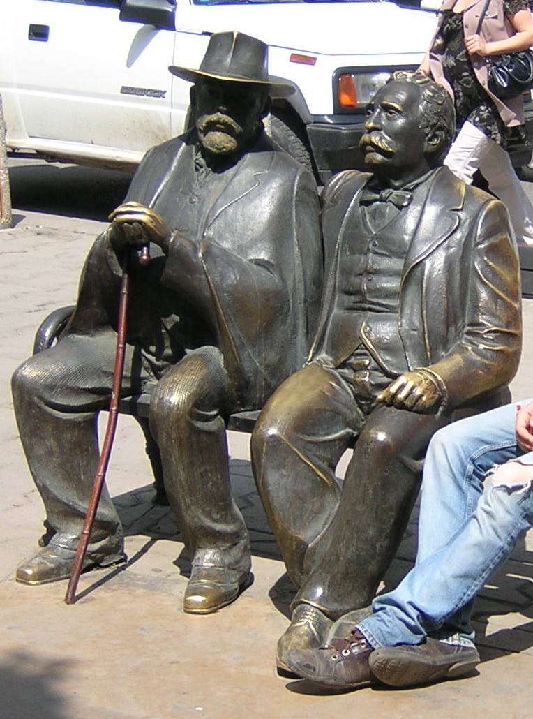 Statue of Petko and Pencho Slaveykov, Sofia, Bulgaria.